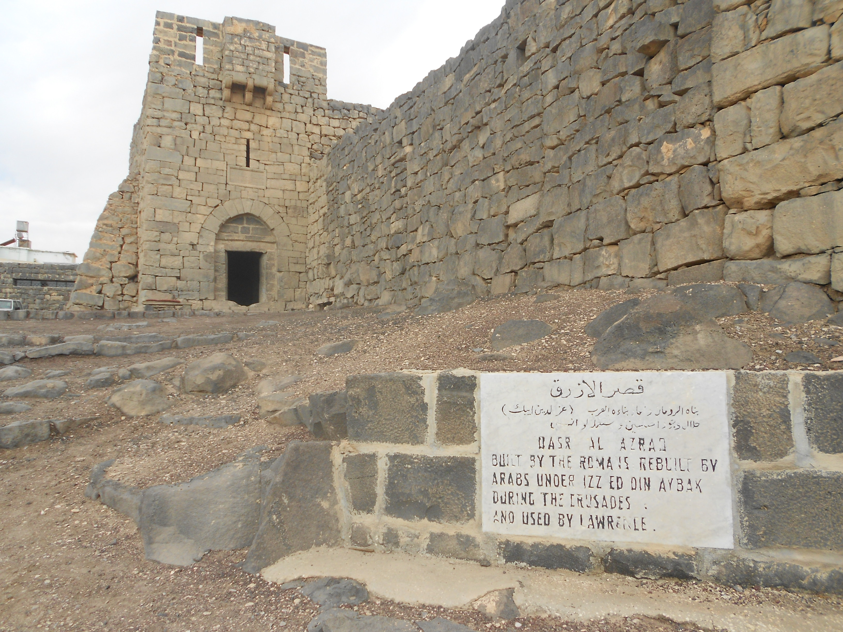 Qasr Al-Azraq, Jordan